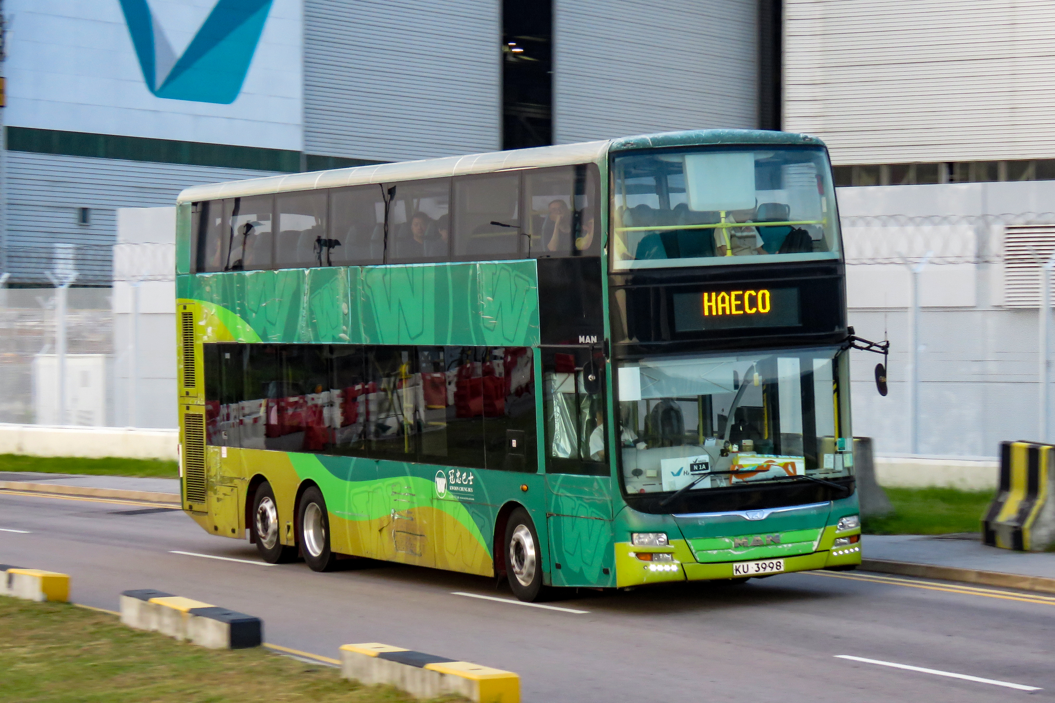 Operating HAECO commuter bus.